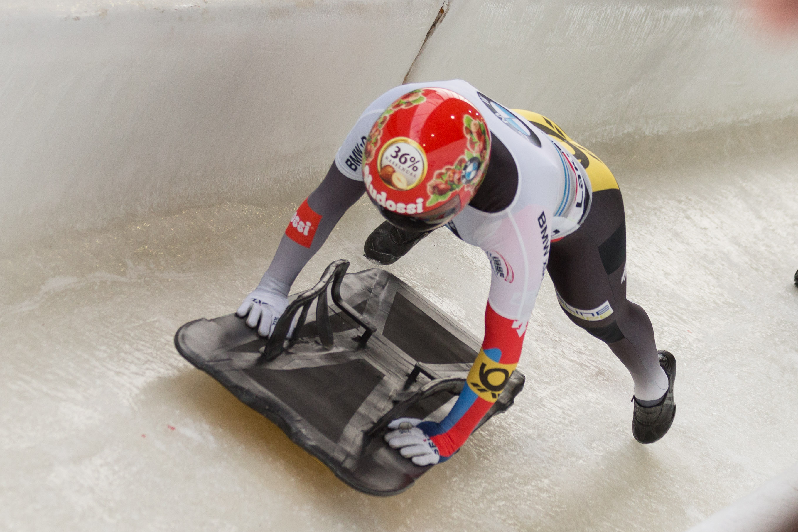 [Tina Hermann| (GER) is seen at the finish of her first run in the 2017/2018 BMW IBSF World Cup race in Lake Placid. She finished run 1 in 9th place.